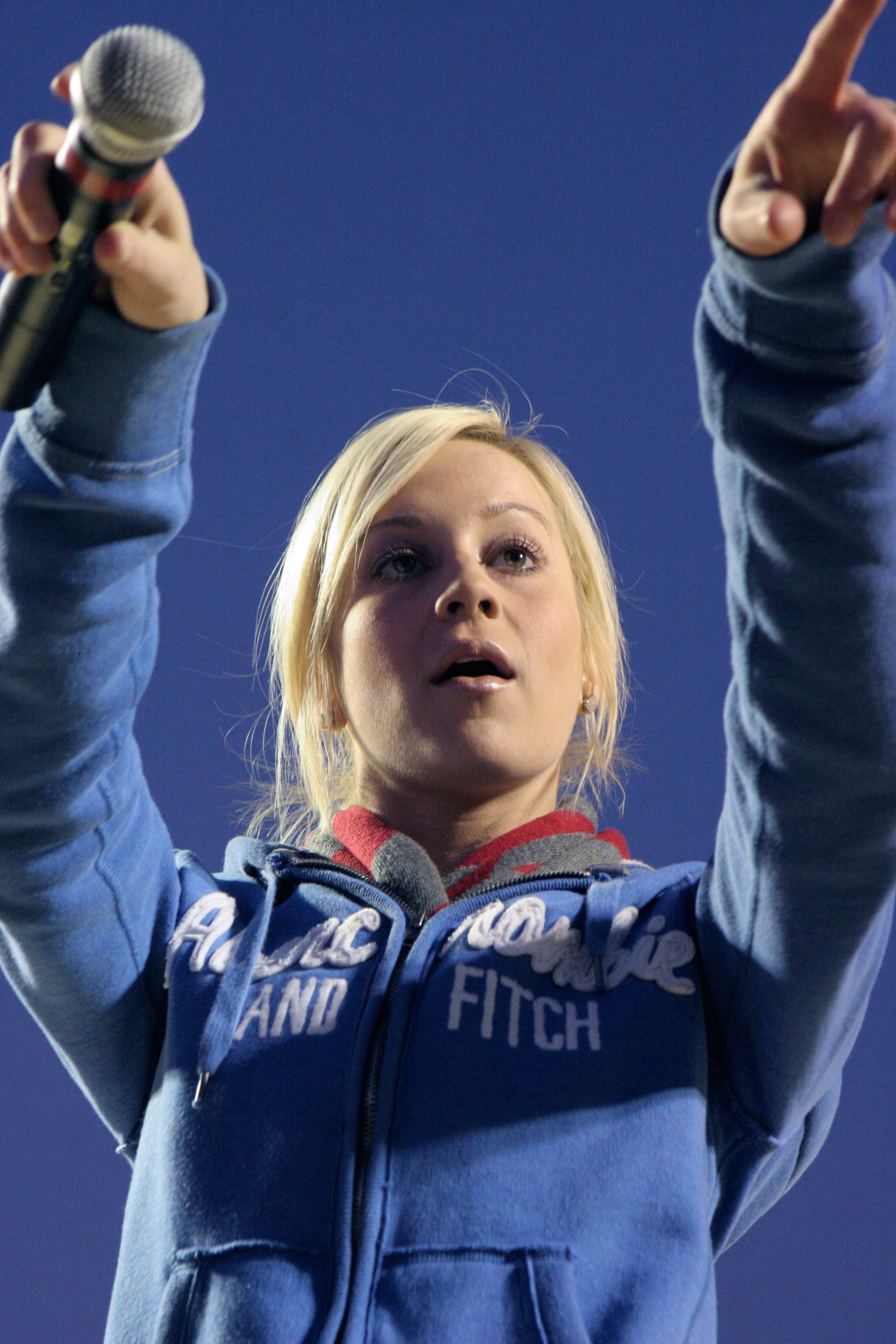 Country music singer and songwriter Kellie Pickler performs for service members during the United Service Organization's Holiday Tour on Dec. 19. The 2006 American Idol contestant was joined by musicians Kid Rock and Zac Brown, and comedians John Bowman, Kathleen Madigan, Lewis Black and Tichina Arnold. The group is set to tour five military bases throughout the Middle East boosting troops' morale.